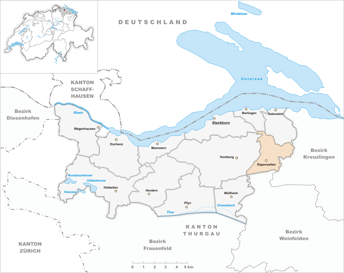 Municipality Raperswilen